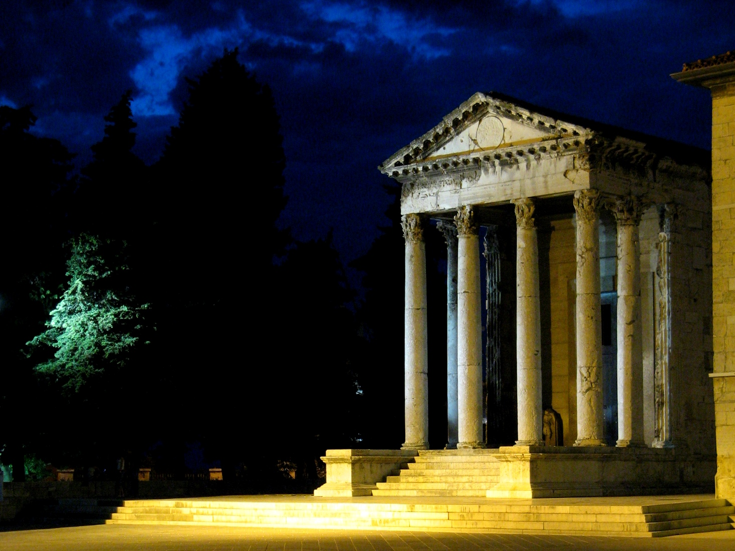 Temple of Augustus, in Pula (Croatia)